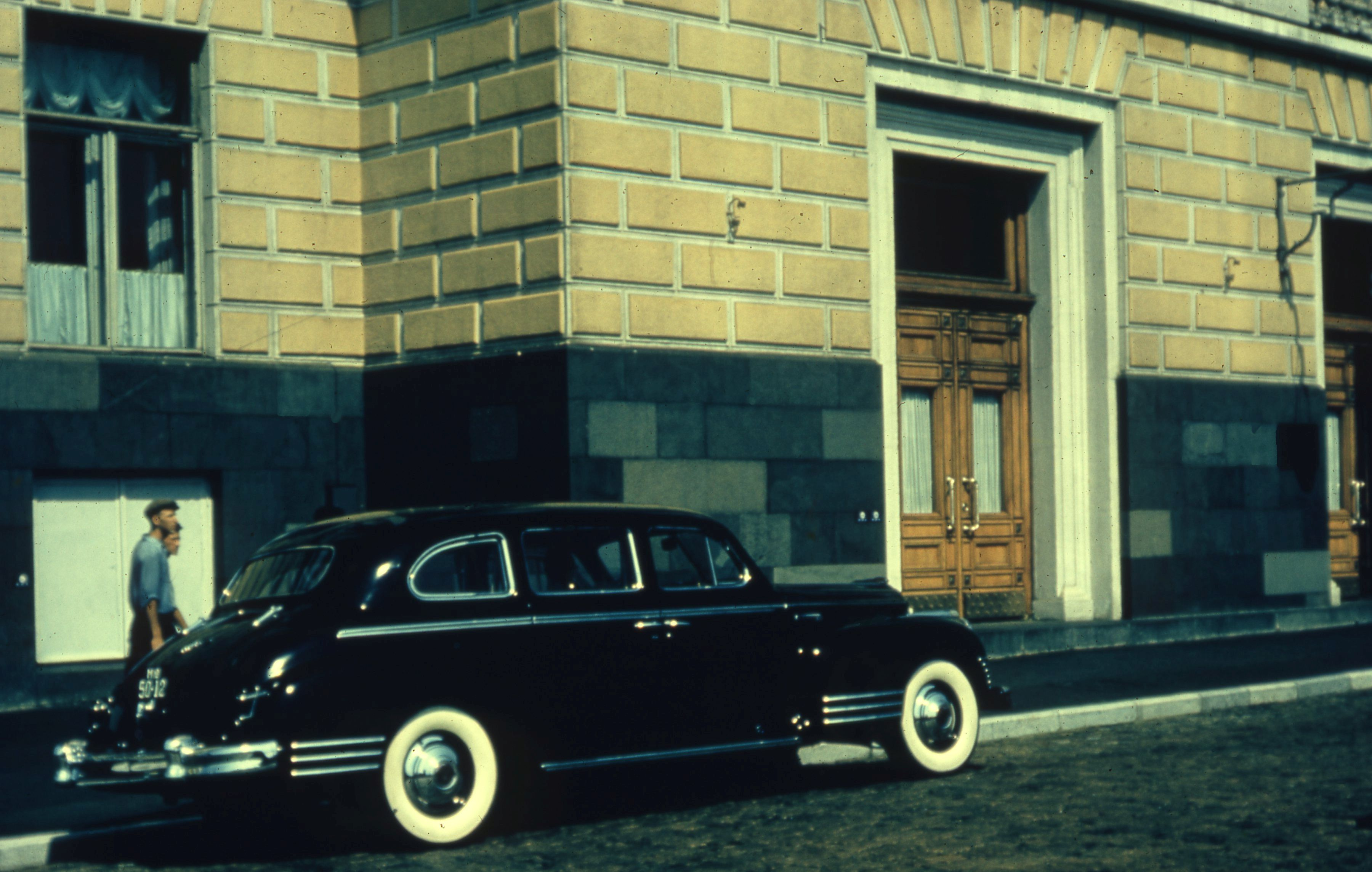 These images were taken by Thomas T. Hammond during his trip to the Soviet Union. This specific image features a car outside of Block 14 of Moscow Kremlin, a government building built in 1934 and demolished in 2016.